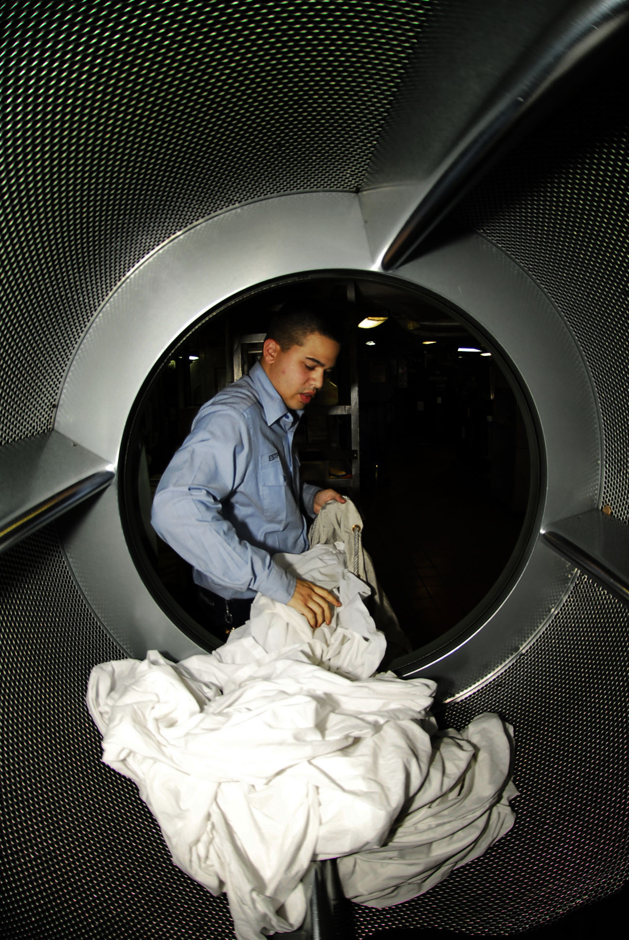 PACIFIC OCEAN (Nov. 3, 2008) Ship's Serviceman Seaman Apprentice Kyle Estrella, from York, Penn., removes bed sheet linens from a dryer in the ship's laundry aboard the Nimitz-class aircraft carrier USS John C. Stennis (CVN 74). Stennis, as part of John C. Stennis Carrier Strike Group, is conducting a composite training unit exercise off the coast of Southern California. (U.S. Navy photo by Mass Communication Specialist Seaman Walter M. Wayman/Released)